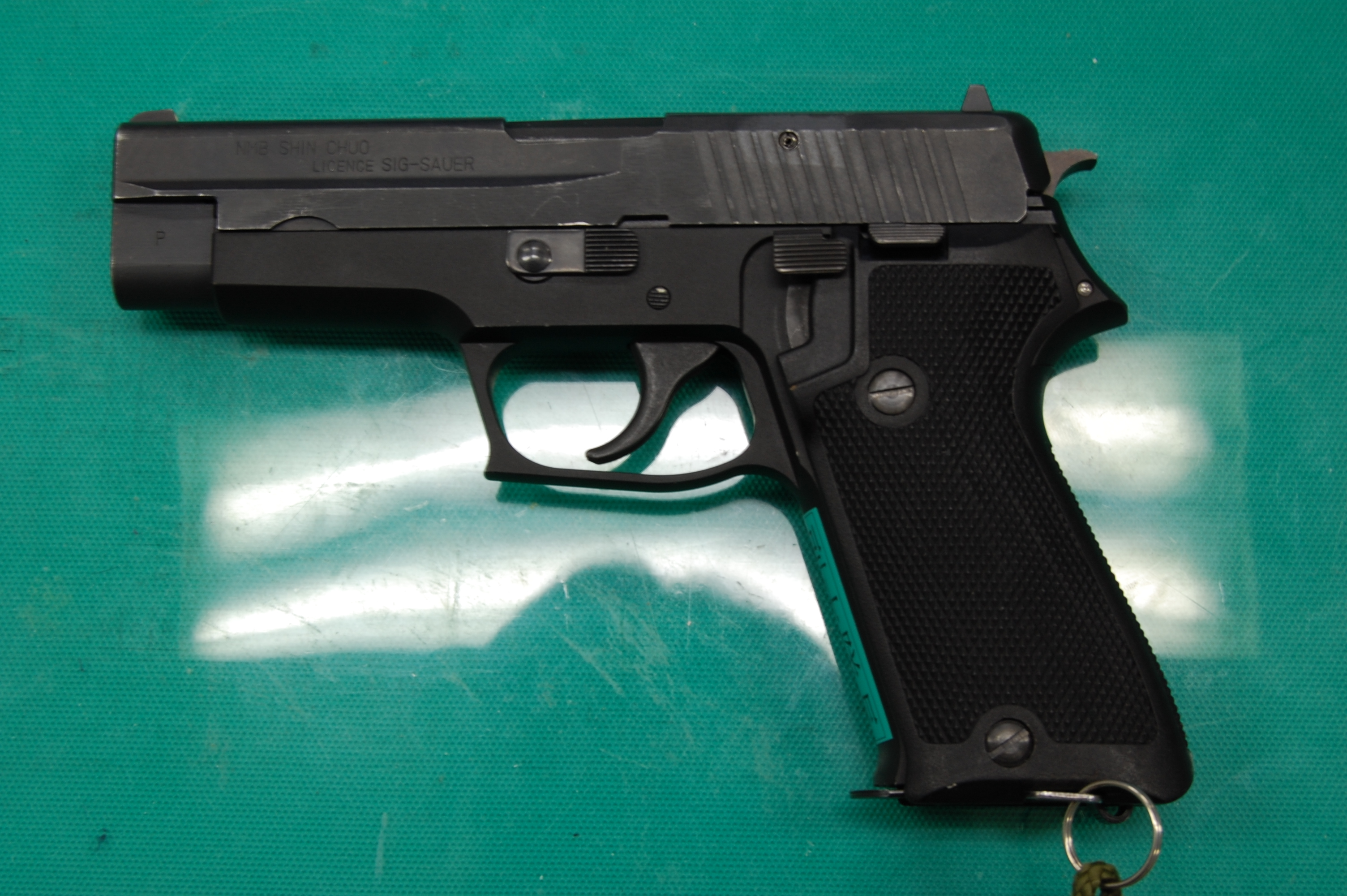 JGSDF 9mm Pistol by Minebea.